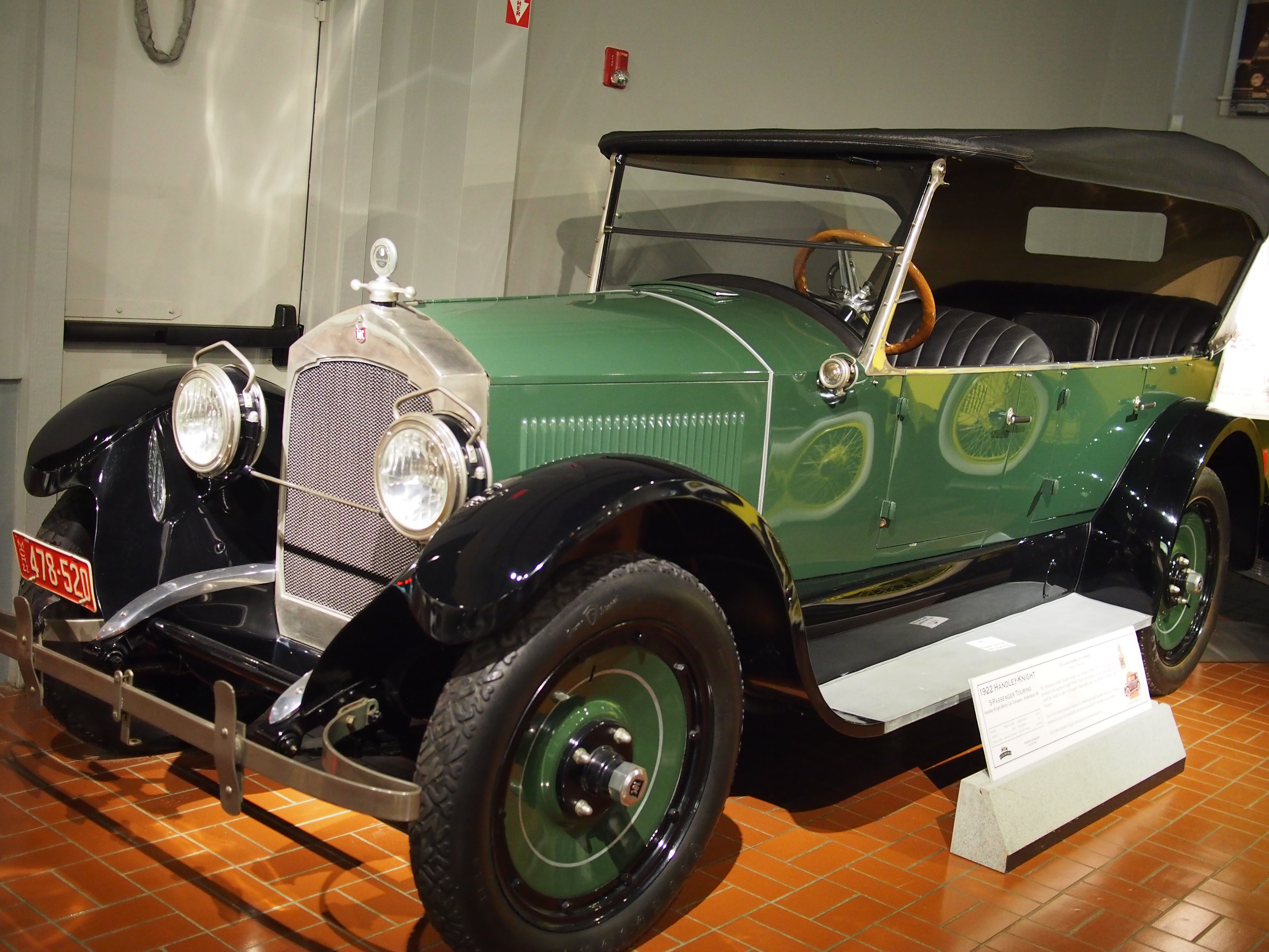 1922 Handley-Knight 5 passenger touringGilmore Car Museum